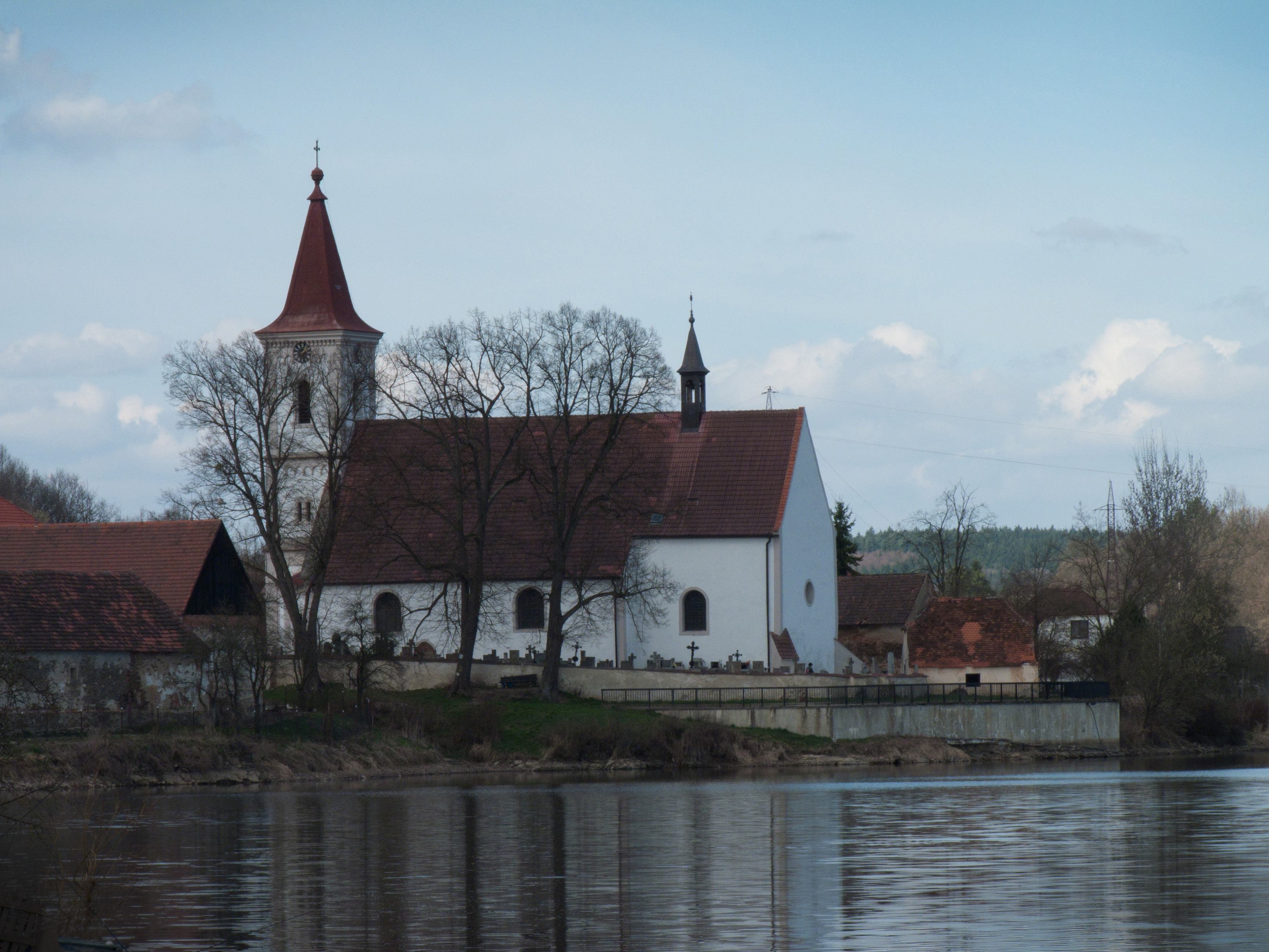 St. George Church in the village of Purkarec, České Budějovice District, Czech Republic, as seen across Hněvkovice Reservoir